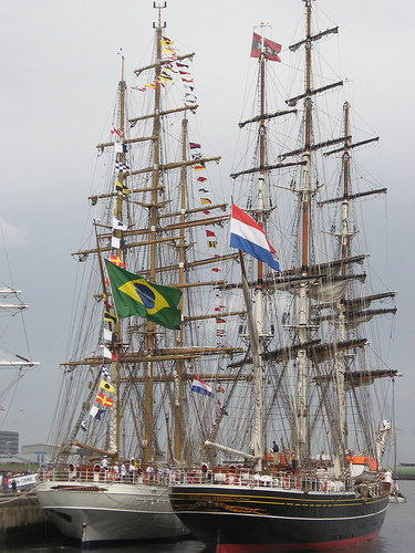 The ships CISNE BRANCO & STAD AMISTERDÃ